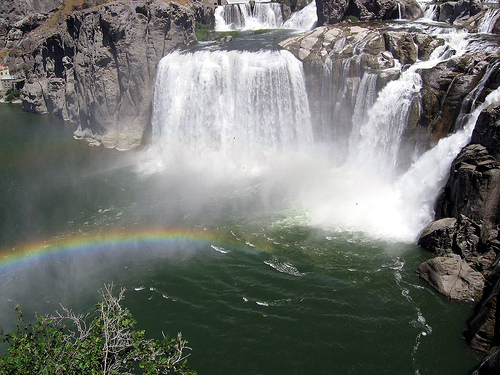 Taken from one of the view decks at the park.